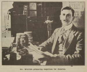 Norman Whitten (1881-1969) in his offices at 17 Great Brunswick Street (1917)